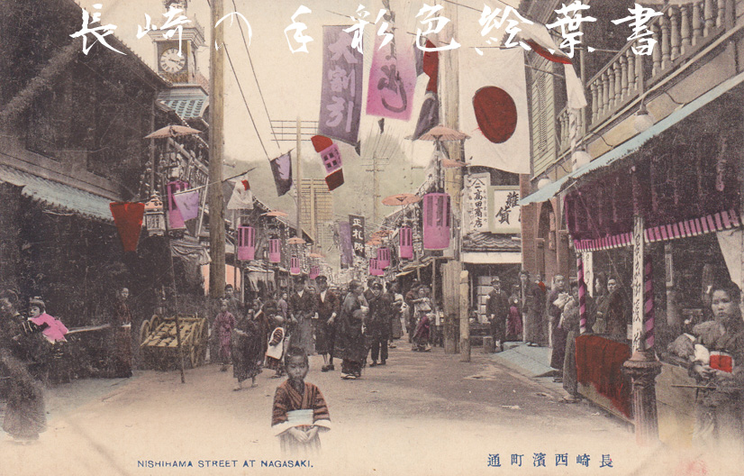 Japanese hand tinted postcard showing Nishihama Street in Nagasaki